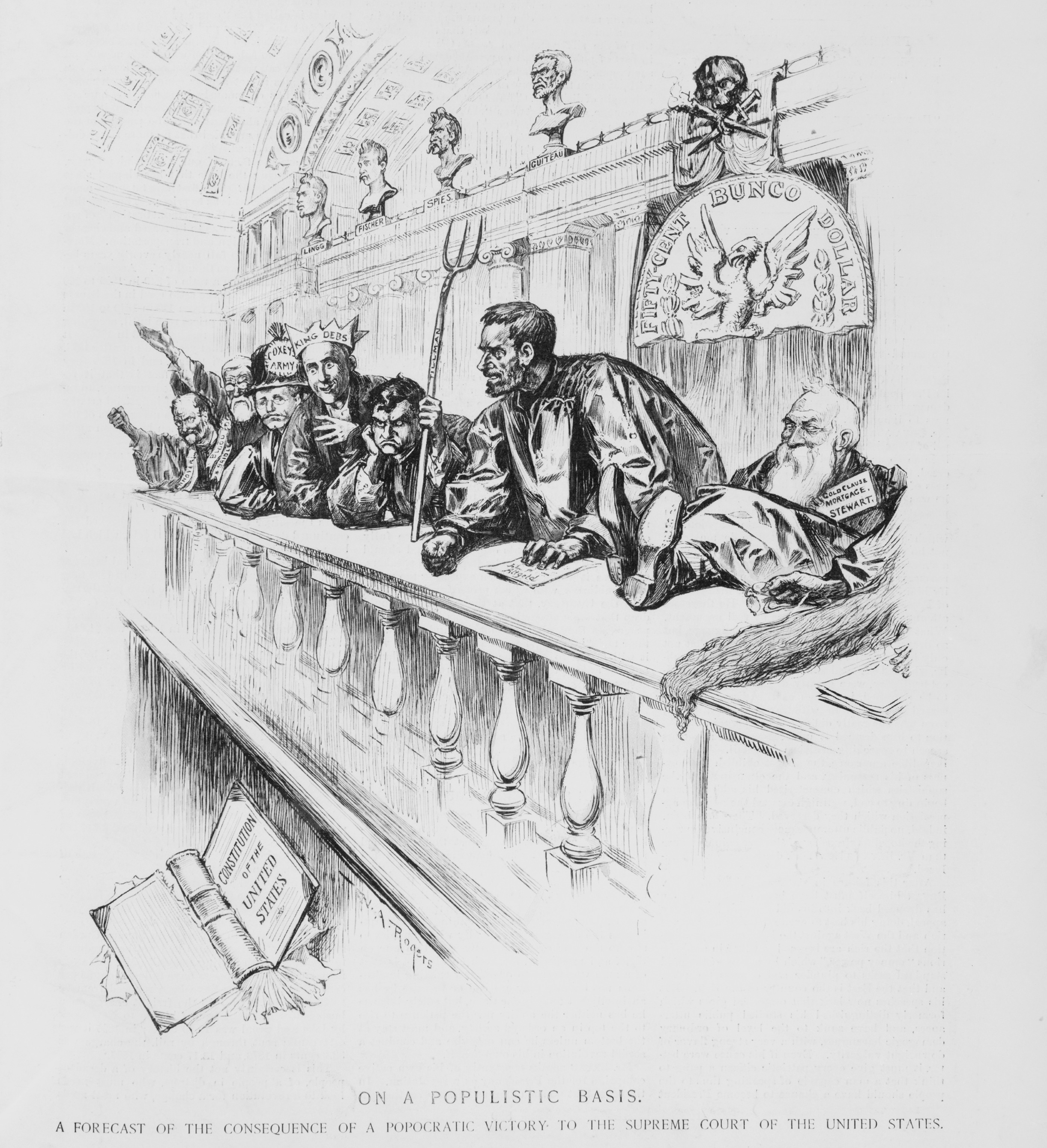 Vision of what the Supreme Court would look like after a Bryan victory. Among the "justices" are Illinois Governor John Peter Altgeld (rising at center right). To his left, with pitchfork in hand is "Pitchfork Ben" Tillman